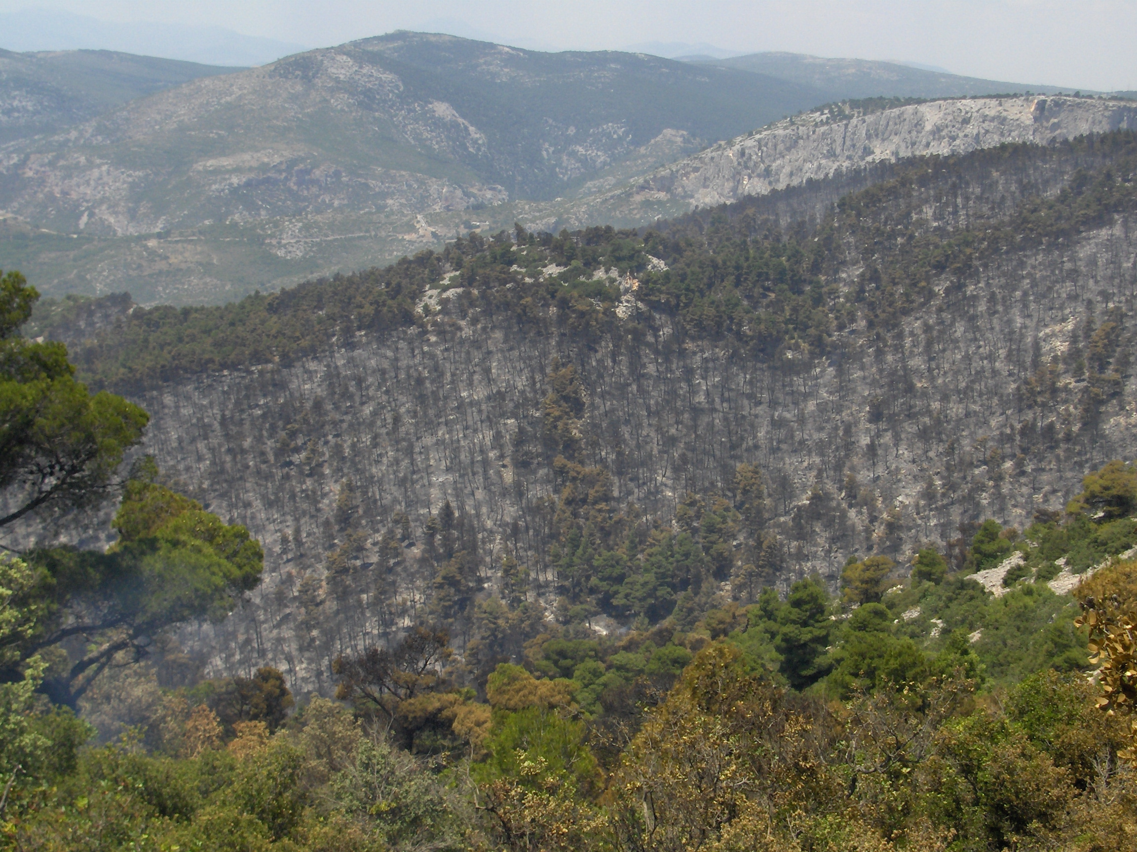 Photo from 3rd and 4th days of the fire in Parnitha.